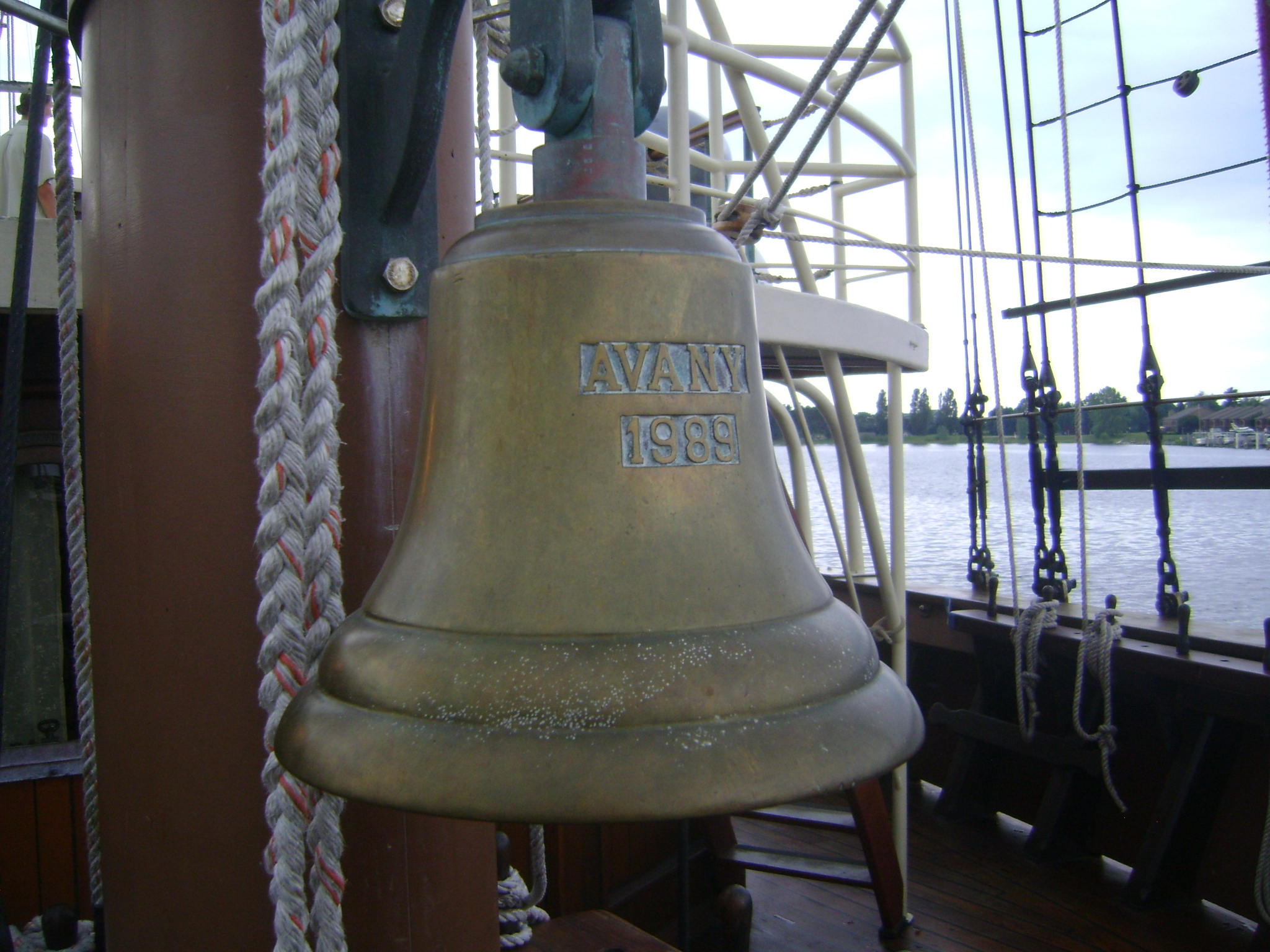 Peacemaker ship bell